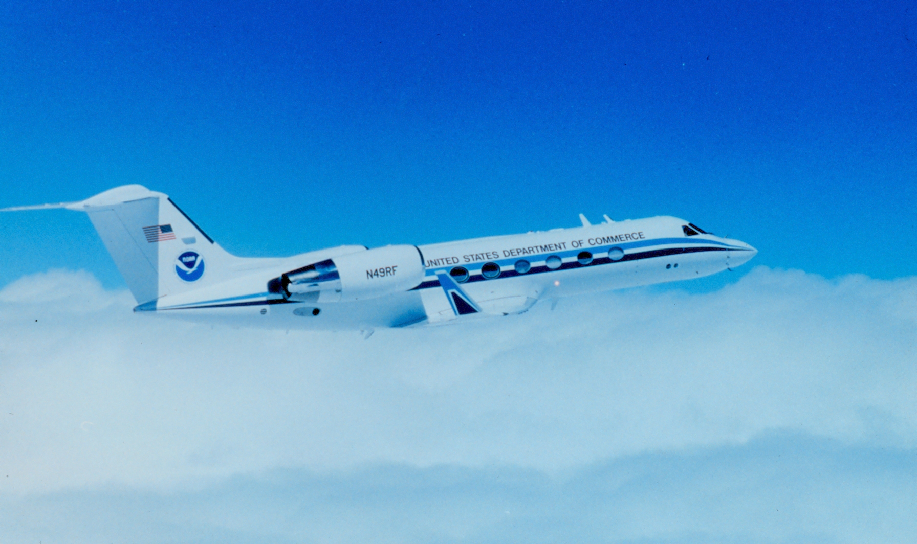 National Oceanic and Atmospheric Administration (NOAA) Gulfstream IV-SP jet